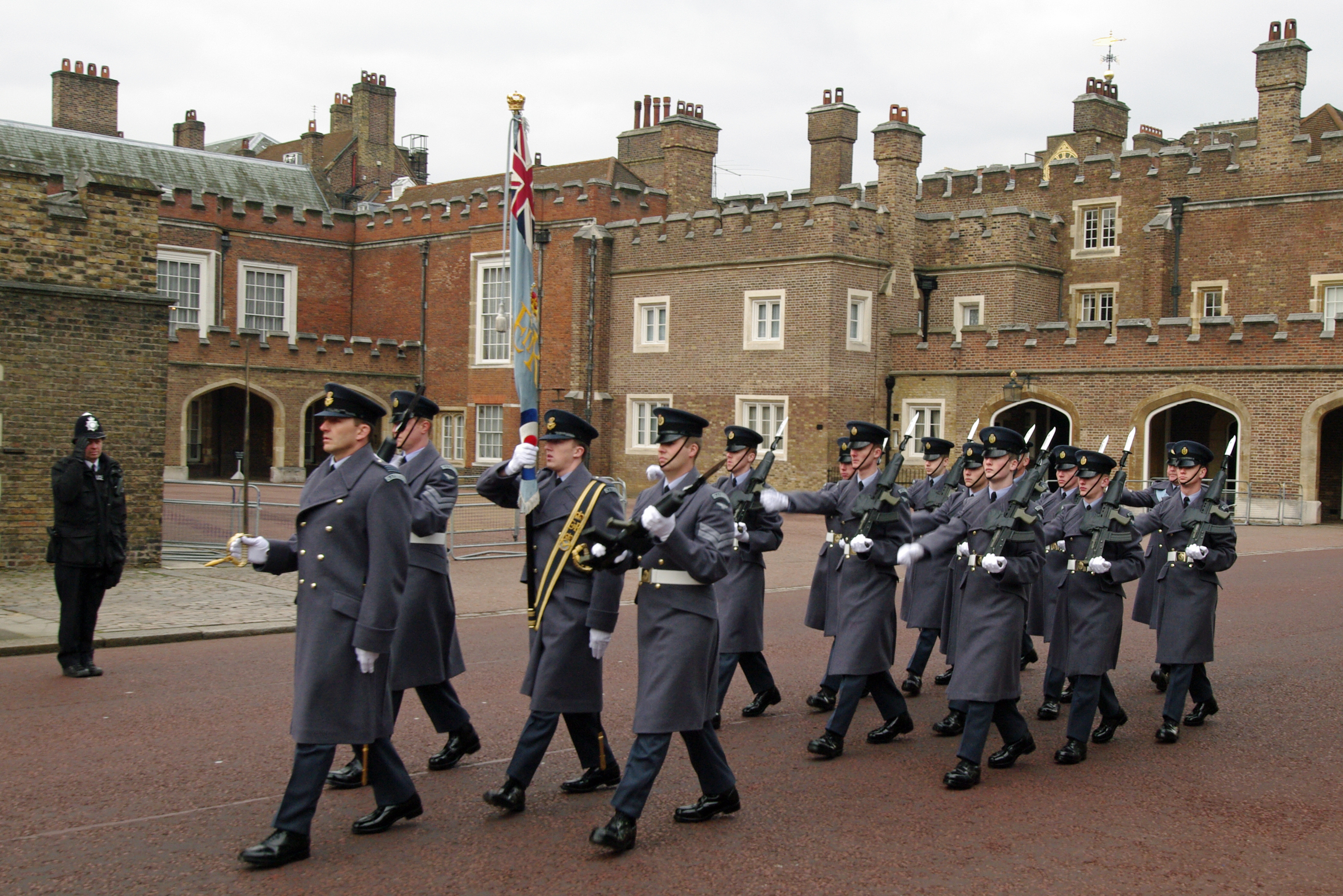 Queen's Color Squadron of the RAF marching on Marlbrogh Road to the changing of the Guards. In the background is St. James's Palace.